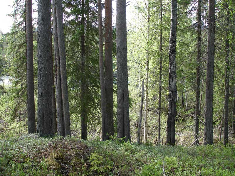 Trees with fire scars from a forest fire which took place in June 1968, 45 years earlier. Most of the trees are Scots pine (Pinus sylvestris), but the picture also shows an aspen (Populus tremula) with a fire scar. The picture was taken on Älgbäcksheden close to the river Öreälven in Lycksele municipality, northern Sweden.